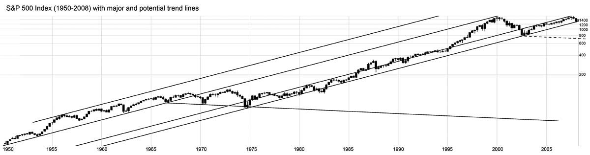 S&P 500 with trend lines from 1950 to 2008